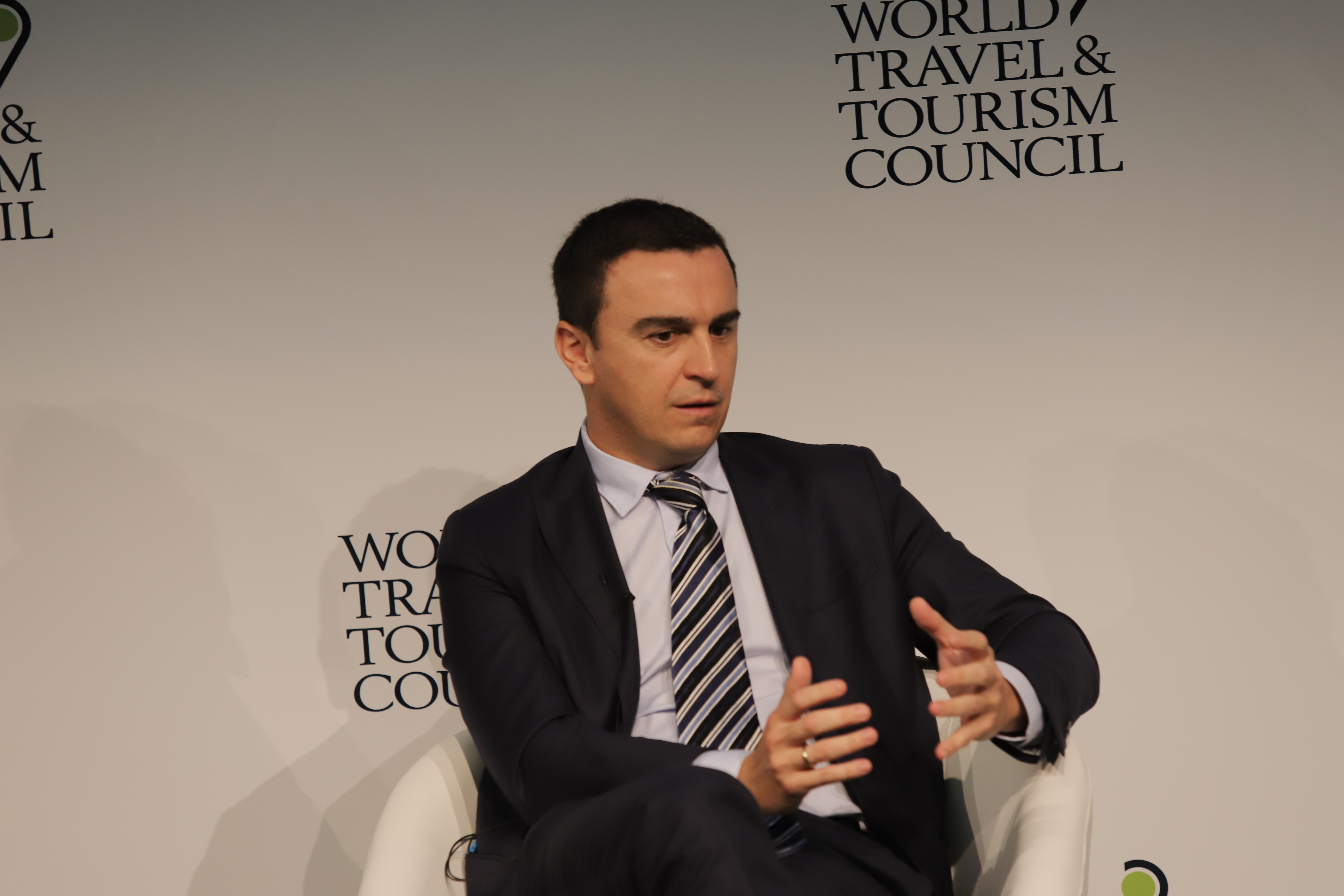 Strategic Insight Session 3: Spain: The Paradox of Popularity